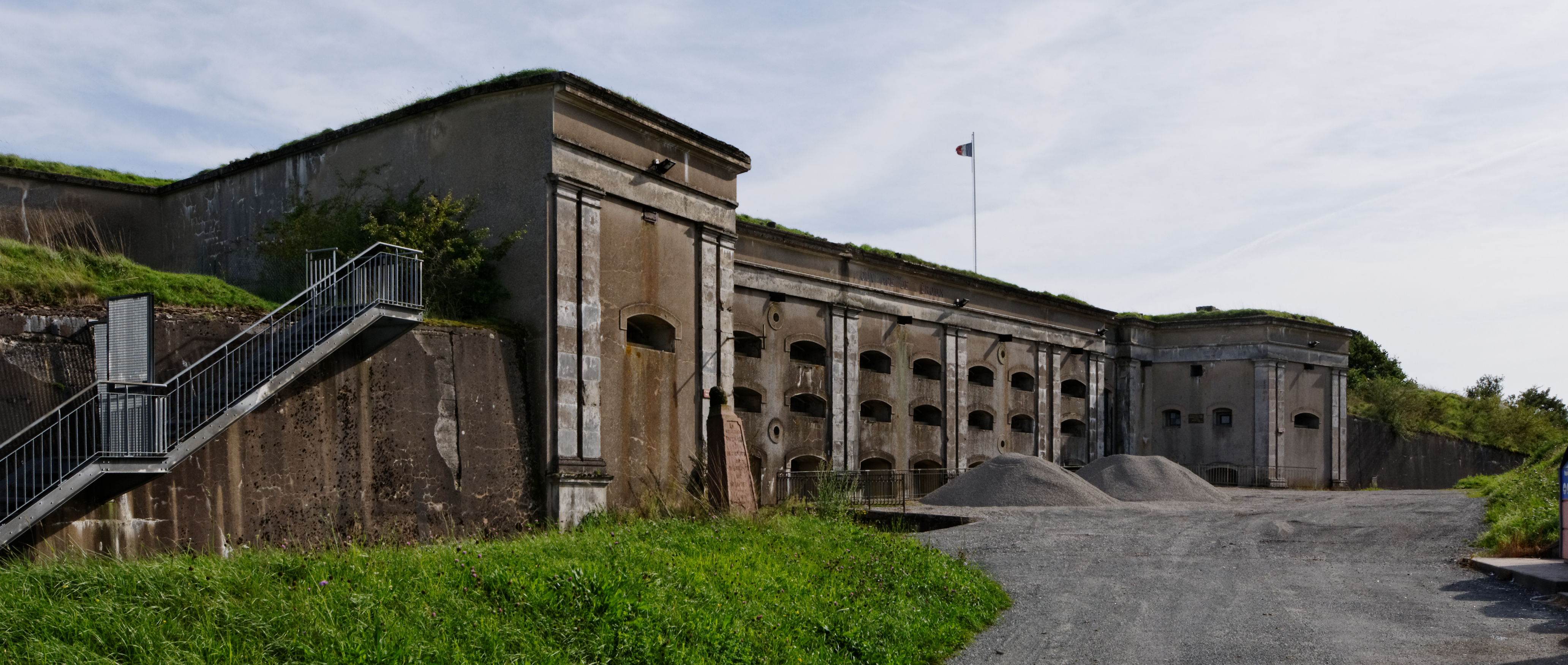 This photograph was taken with a Nikon D300 Ouvrage de Meroux. Monument inscrit MH n°PA00135352.